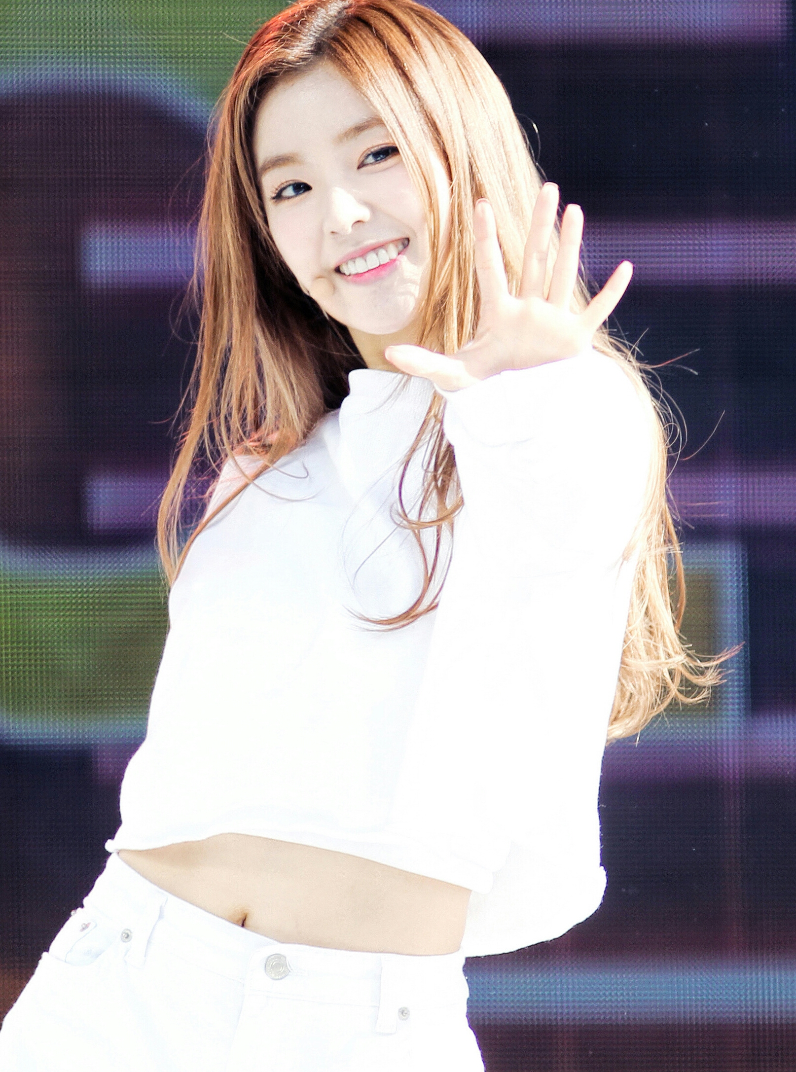 Irene Bae at DMC Music Festival on September 12, 2015.